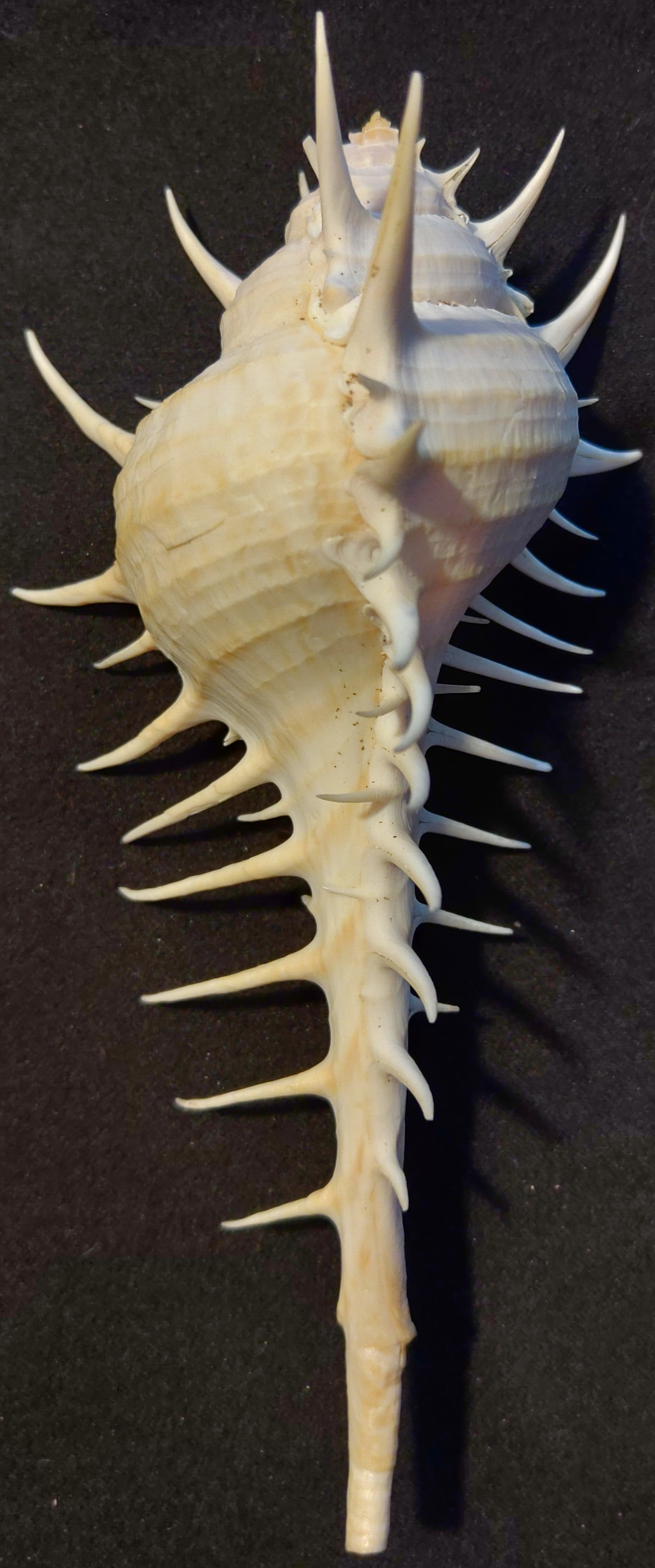 Murex Scolopax Back.